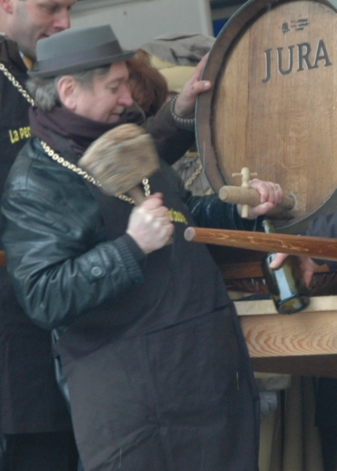 Jazz pianist Tom McClung, godfather of the 13th "percée du vin jaune", in Frontenay & Passenans (Jura).